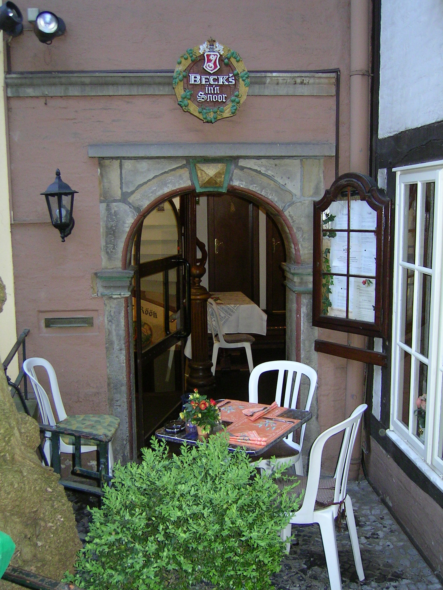 Houses from the 15th and 16th centuries along the narrow alleys in Bremen’s oldest surviving quarter